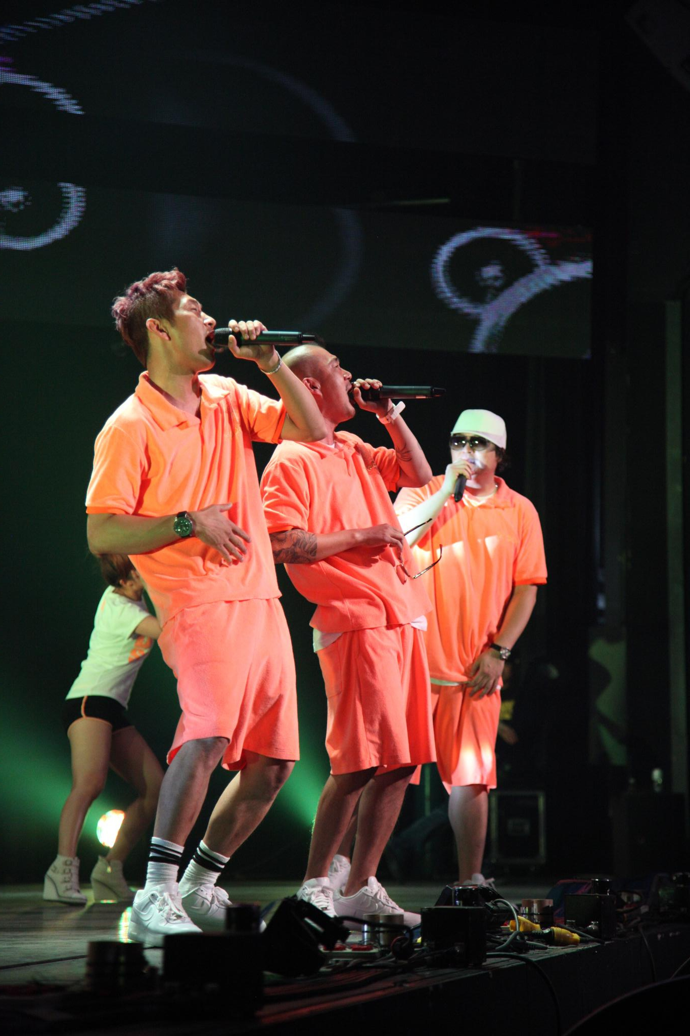 DJ DOC @ Cyworld Dream Music Festival 싸이월드 드림 뮤직 페스티벌_42